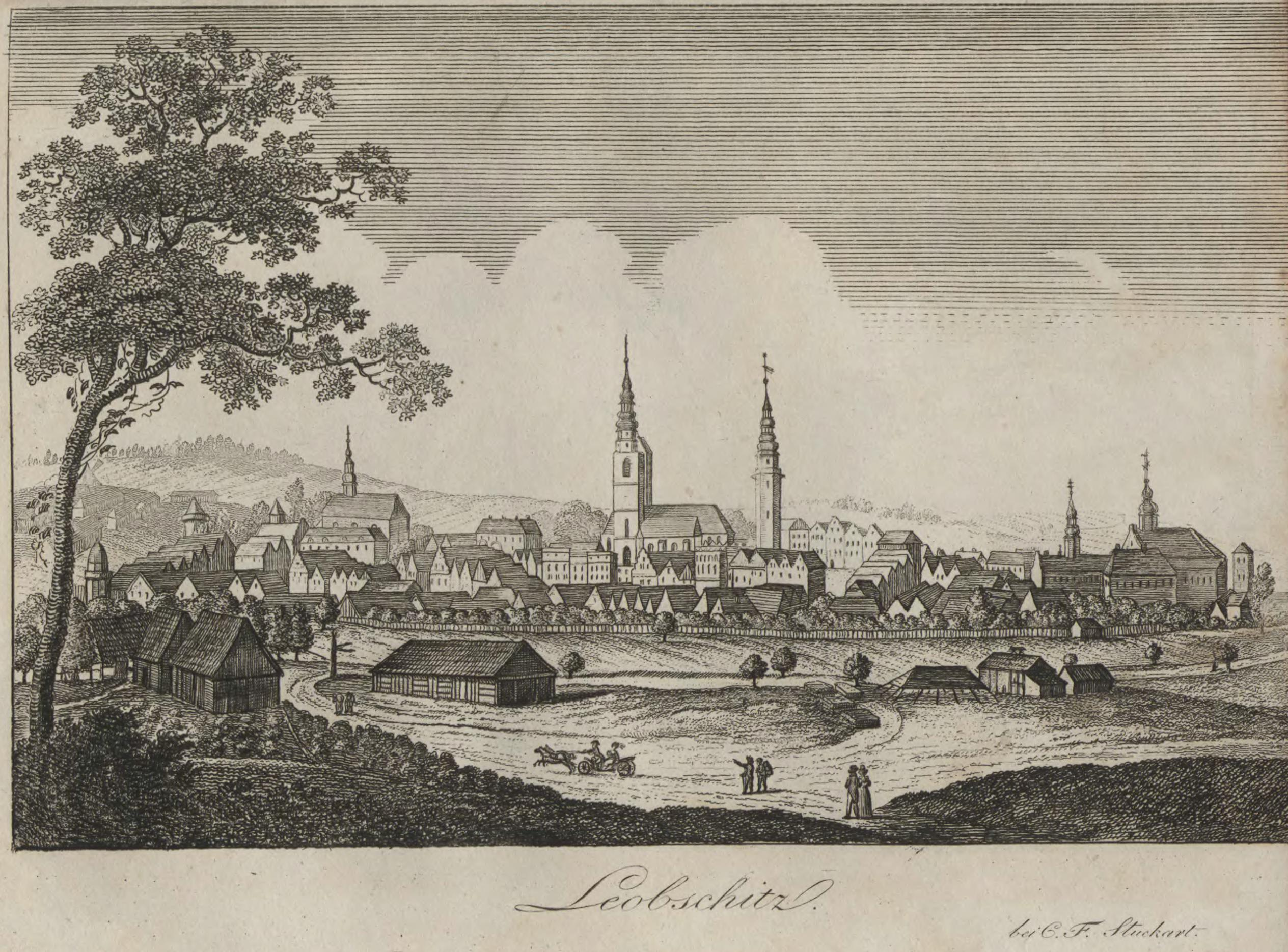 View of Leobschütz in Upper Silesia